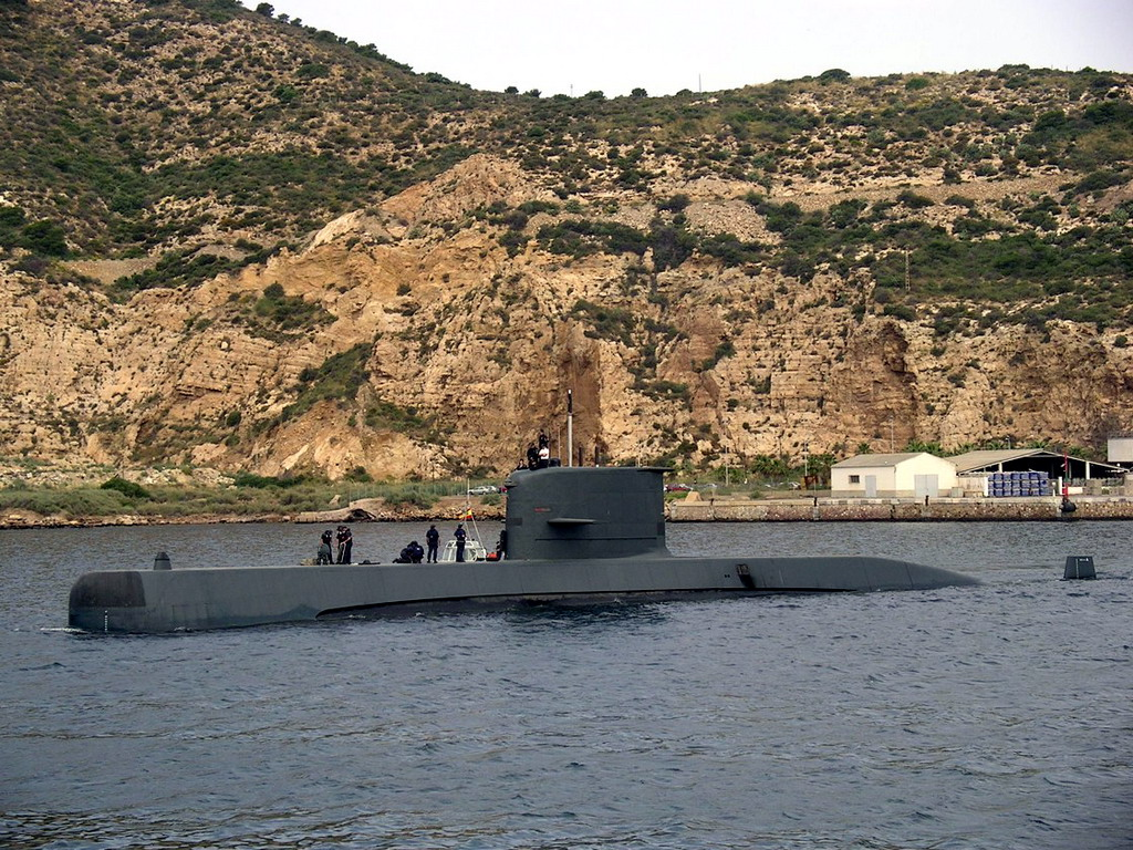 Italian submarine Primo Longobardo near Cartagena Il sommergibile italiano Primo Longobardo nelle acque spagnole di Cartagena